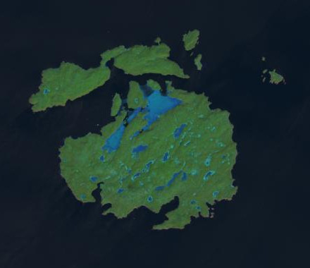 Slate Islands, northern Lake Superior, Ontario, Canada. The islands are part of the central peak structure of an ancient impact crater. Image acquired April 21, 2019. Image width is about 13 km.